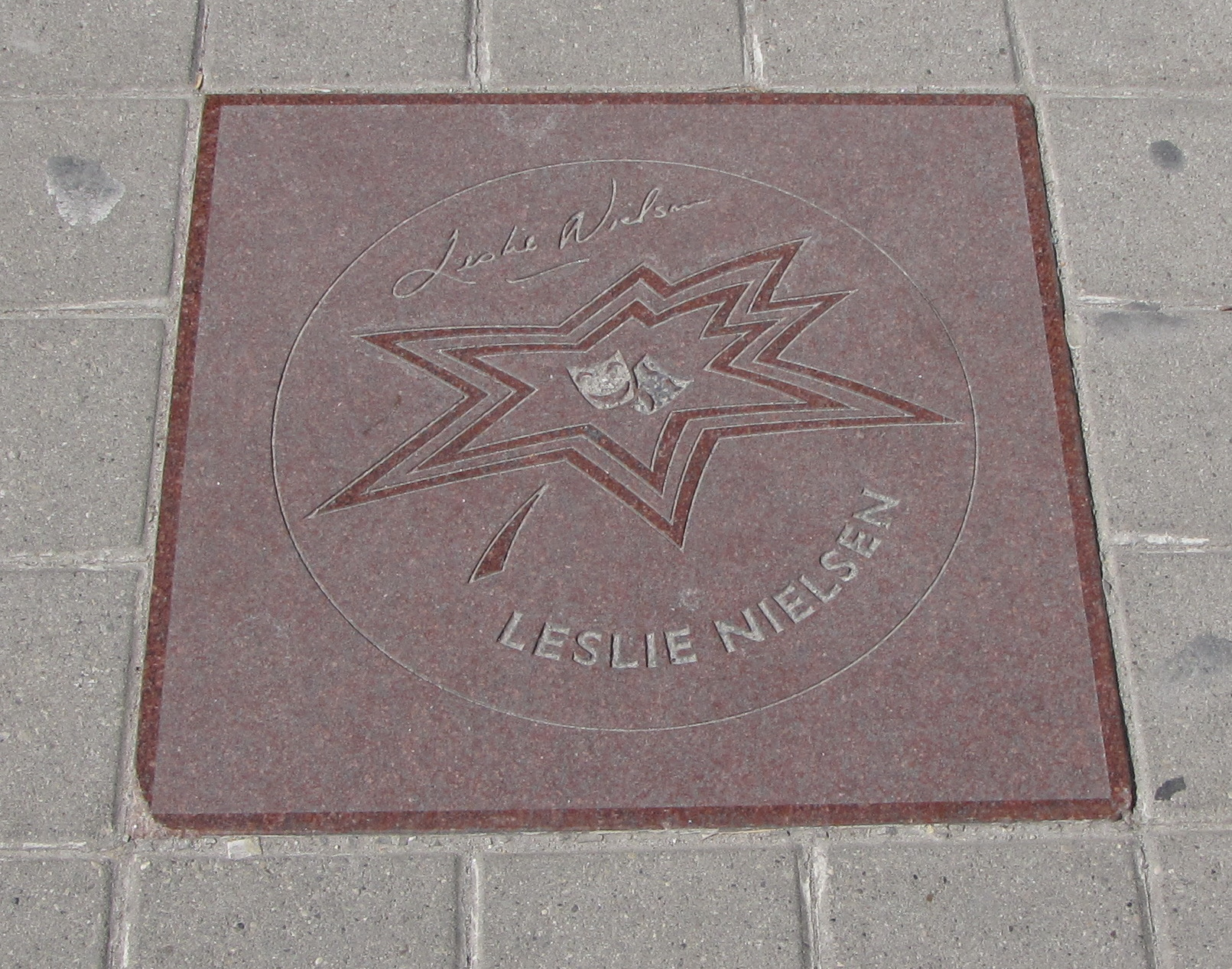 Leslie Nielsen's star on Canada's Walk of Fame